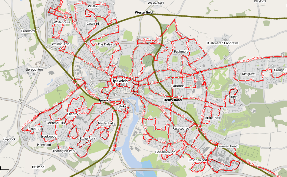 Bus map of Ipswich